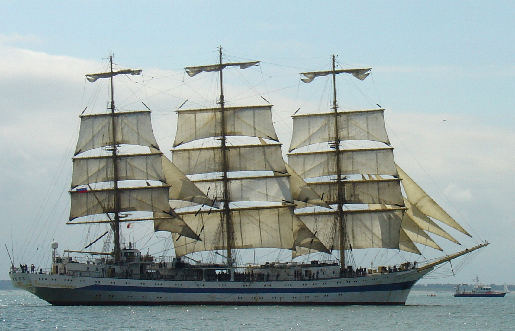 Russian sailing ship "Mir" during Sail de Ruyter in Vlissingen the Netherlands